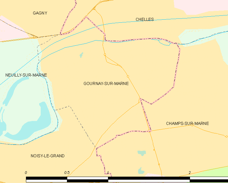 Map of French municipality Gournay-sur-Marne